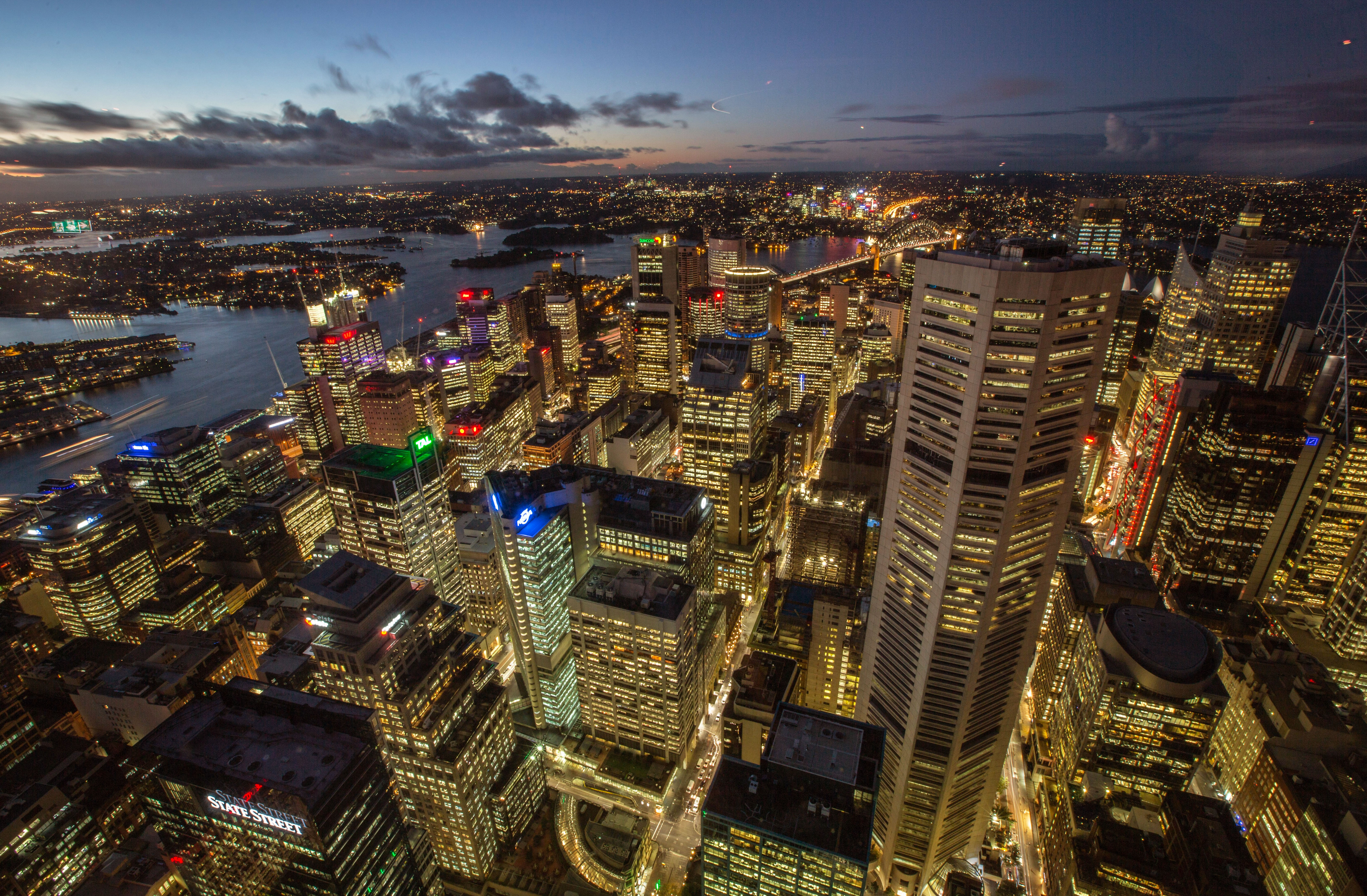 The central business district of Sydney, Australia from above.